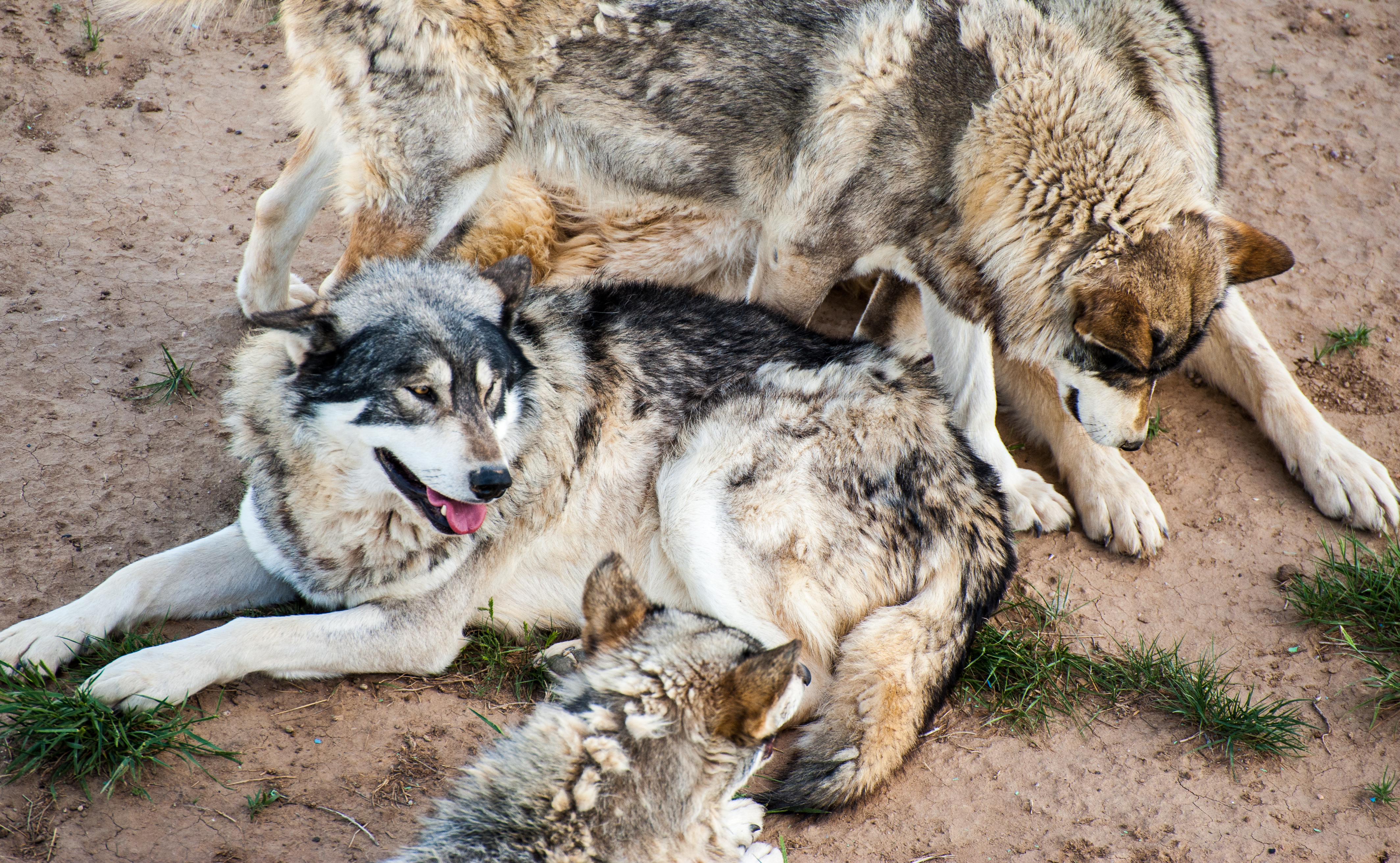 Grey Wolves at Wild Animal Sanctuary, Keenesburg, Colorado (26-May-2012)